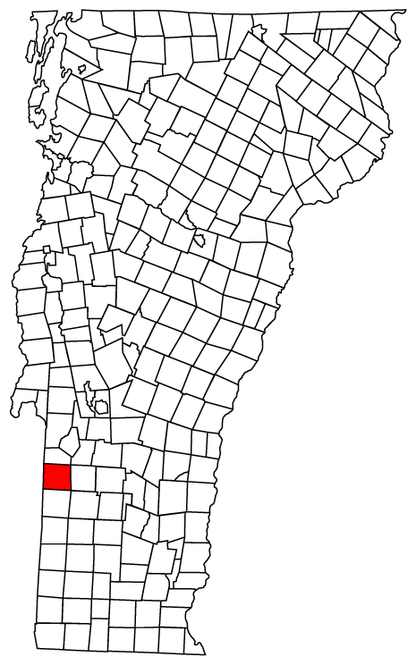 Description: Map of Vermont towns with Pawlet highlighted Source: Map created by Jared C. Benedict on 26 March 2004. Copyright: © Jared C. Benedict.